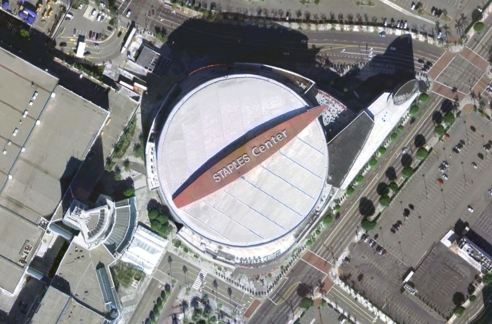 Staples Center satellite view, nasa world wind 1.3.5